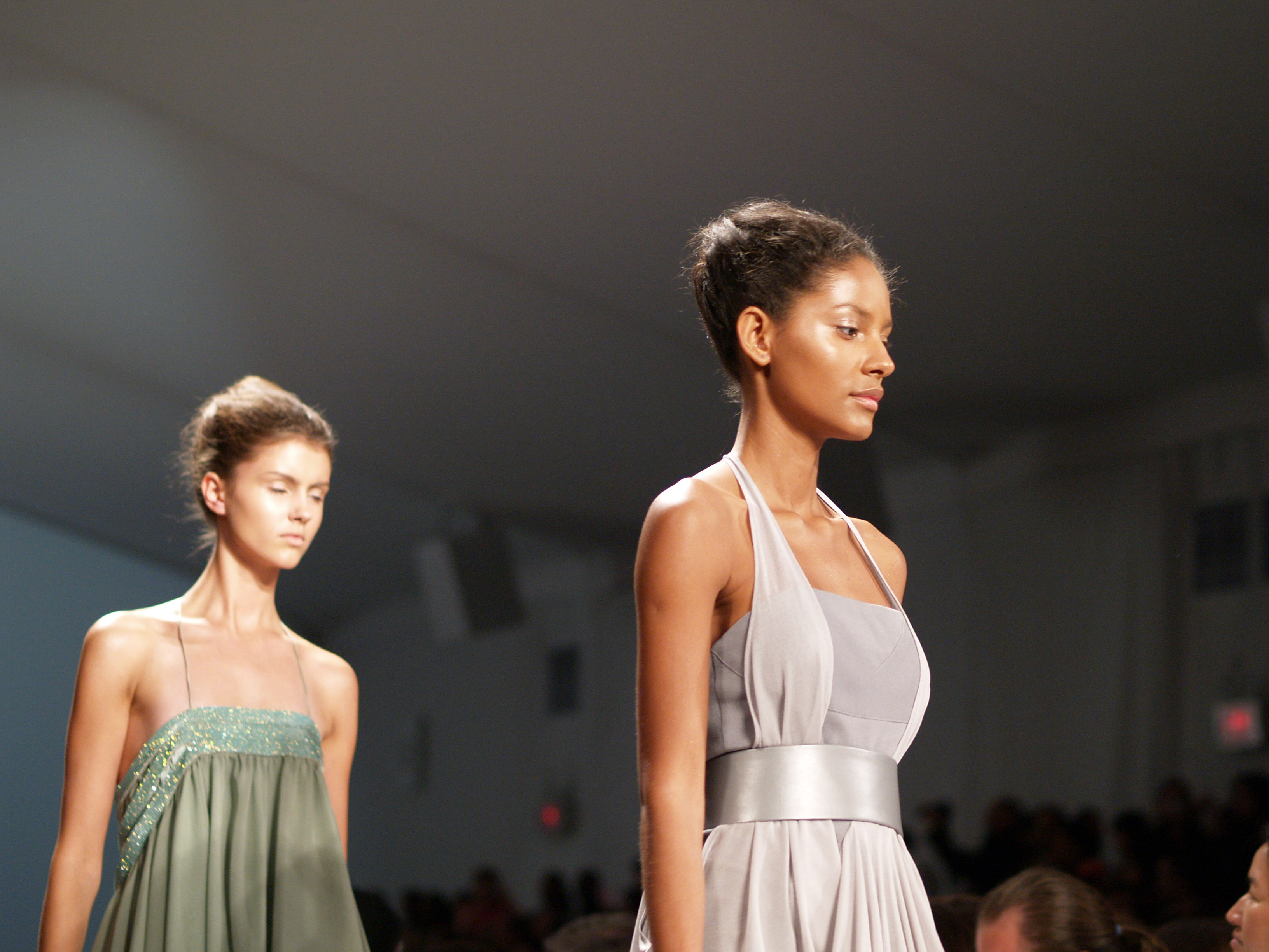 Anett Griffel (left) and Emanuela de Paula (right) modeling in Doo.Ri Spring 2007 show, New York Fashion Week